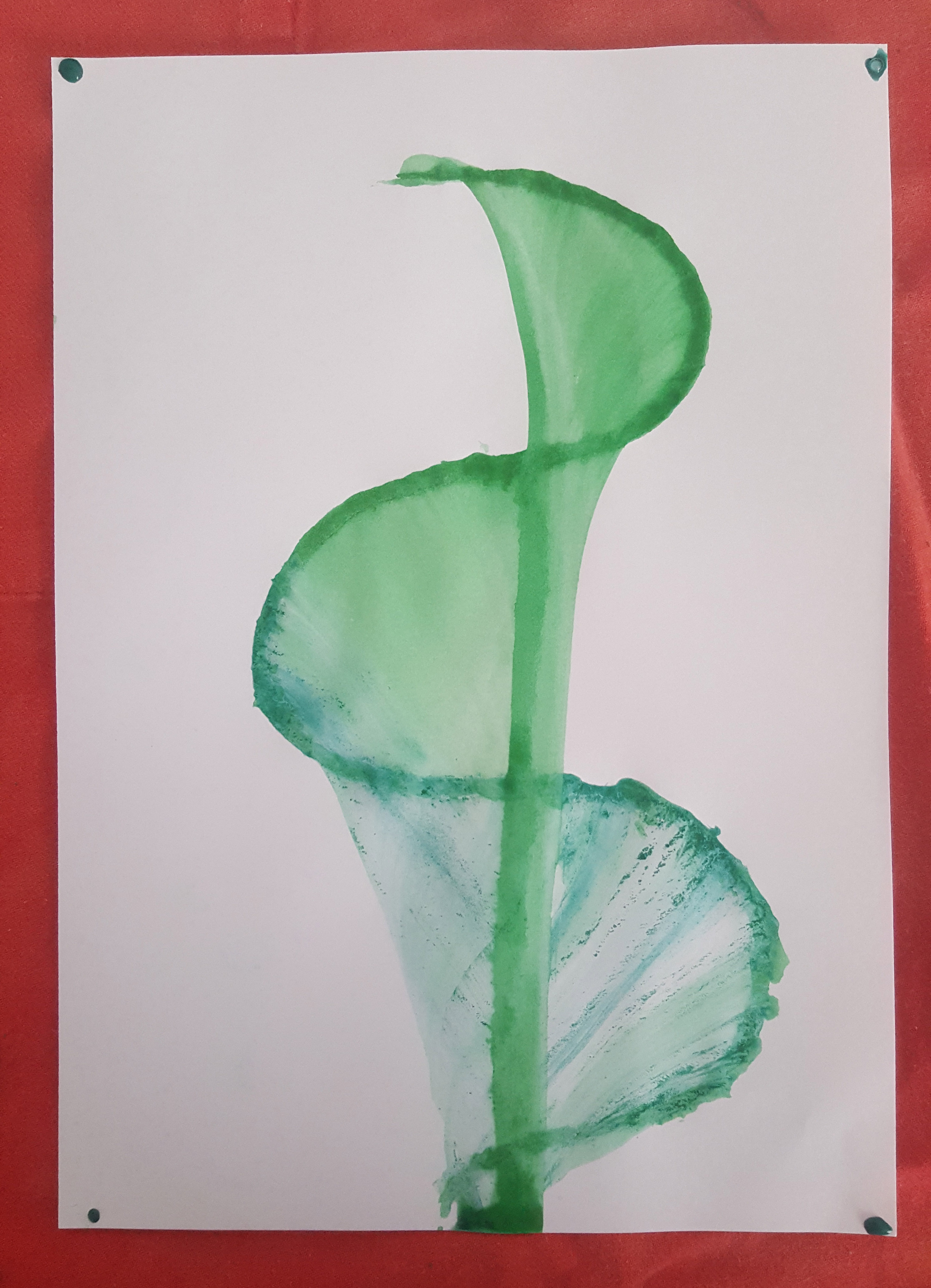 Pull String Art